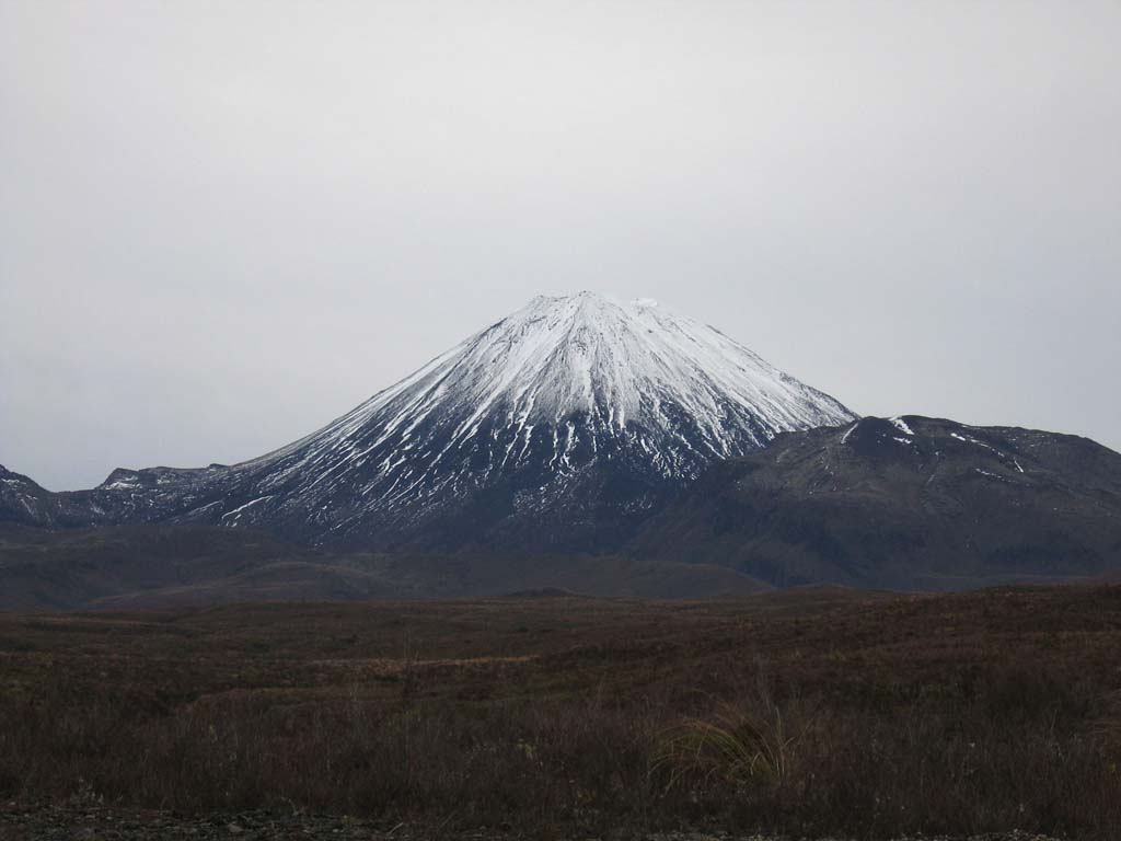 Mt Ngauruhoe in New Zealand, the mountain used as Mt Doom in the Lord of the Rings trilogy.